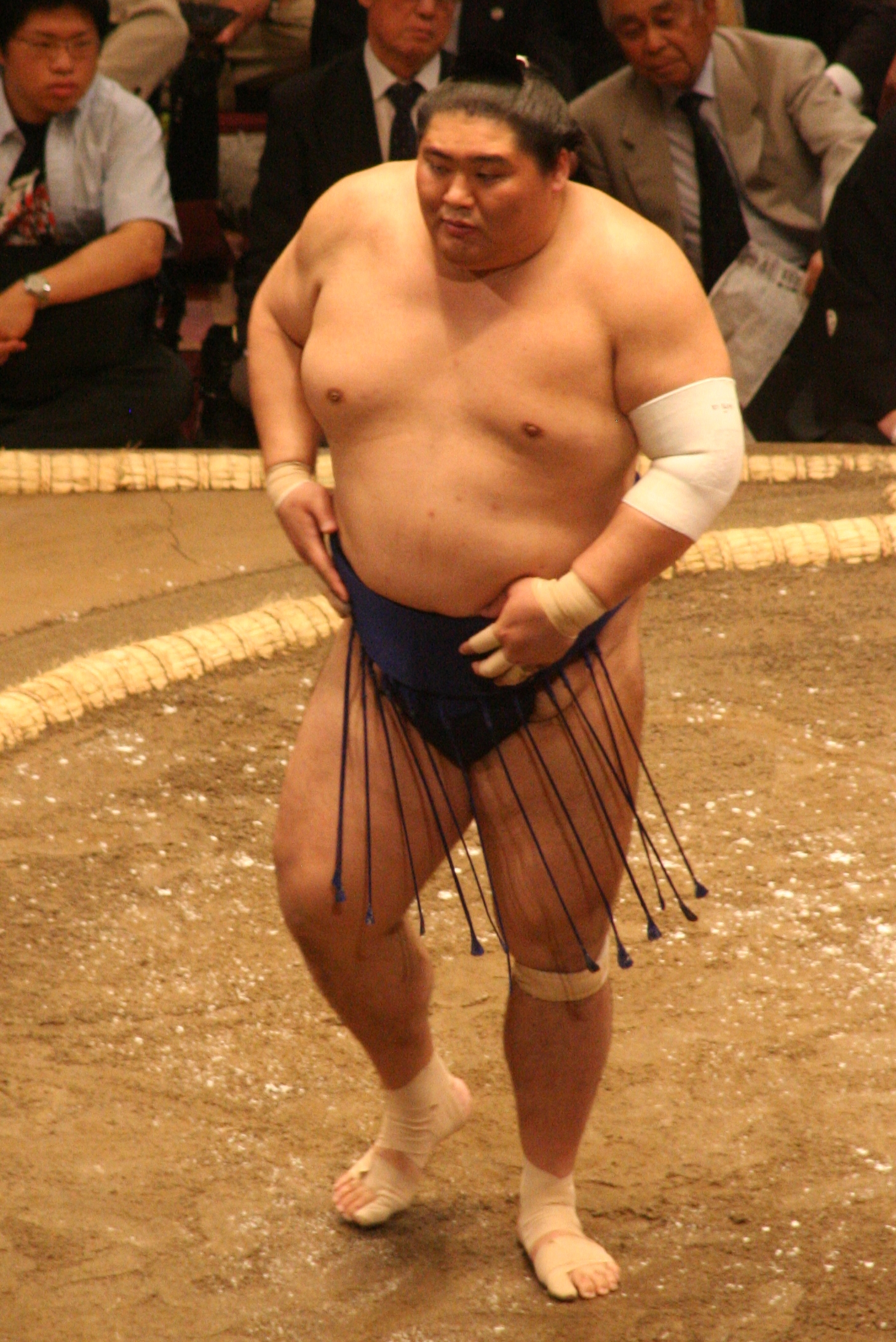 First day of 2009 May Sumo Tournament in Tokyo, Japan - Tamanoshima